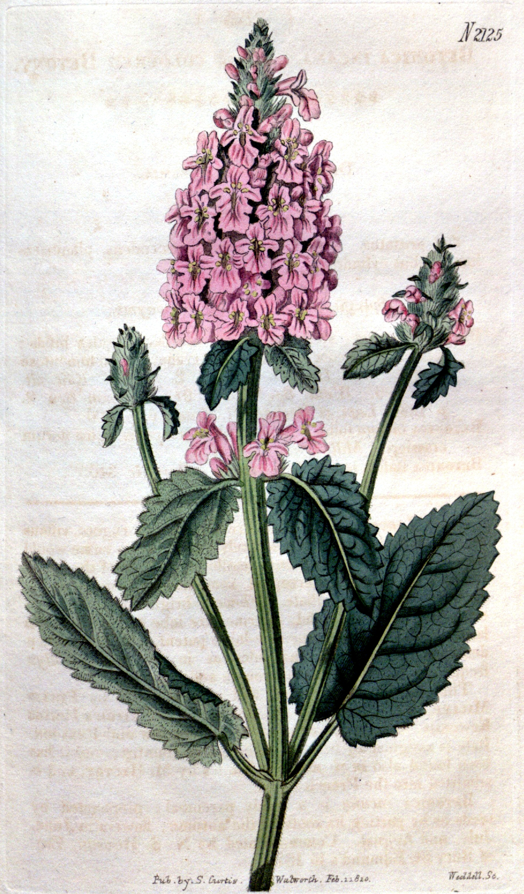 Betonica officinalis Curtis's Botanical Magazine 1820 vol 47 t2125 {Stachys officinalis (L.) Trevis. [as Betonica incana Miller]}